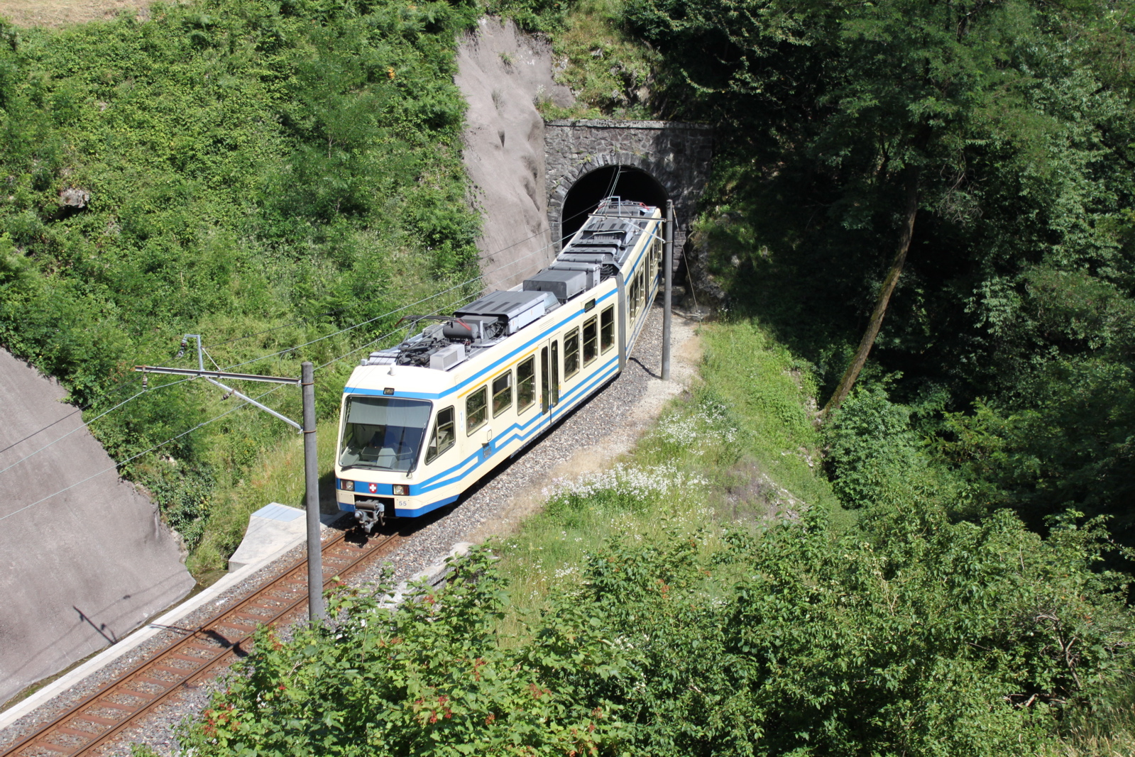 ABe 4/6 55 "Vallemaggia" running from Locarno to Camedo as R 320, at Verdasio (Switzerland)